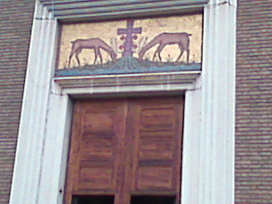 the gate of church SACRO CUORE in monza